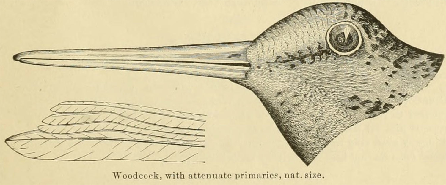 Scolopax minor (American Woodcock) "Woodcock, with attenuate primaries, nat. size."